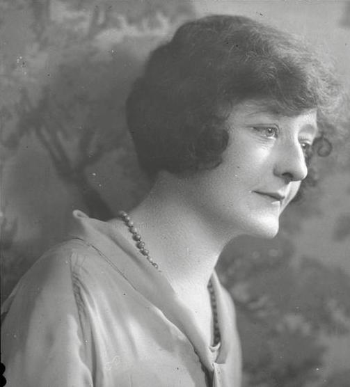 Title Kay Cleaver Strahan Description Kay Cleaver Strahan is one of the popular writers who has achieved success with her mystery novels. One of these, The Desert Moon Mystery, won the 1928 Scotland Yard Prize for detective stories. Mrs. Strahan is a real Oregon writer, born at LaGrande, and the Cleavers are an old Oregon family. Shw now lives in Portland and uses Oregon settings for much of her writing. The scenes of her novel, Footprints were laid in Eastern Oregon. Work Type lantern slides Date 1936 circa Identifier P217:24:25 Rights Rights Reserved - Free Access Local Collection Name Visual Instruction Department Lantern Slides, 1900-1940 (P 217) Format image/tiff Set OSU Special Collections & Archives Research Center Primary Set OSU Special Collections & Archives Research Center Is Part Of Set 37 - Oregon Writers Institution Oregon State University